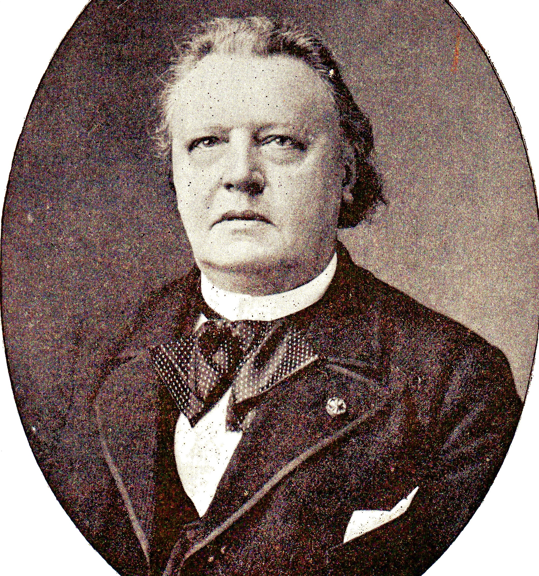 Marie Adrien Perk